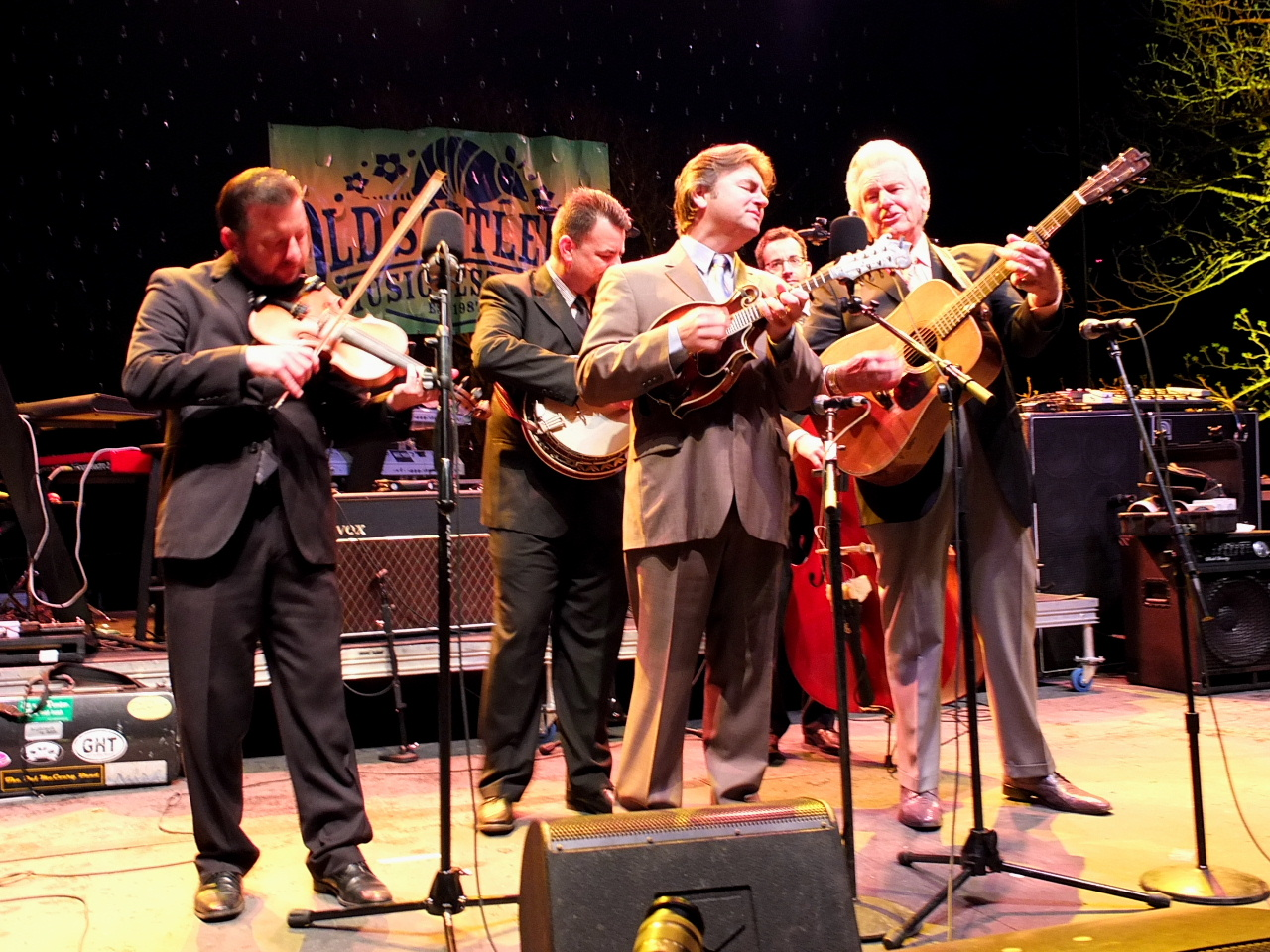 Del McCoury Band at Old Settler's Music Festival 2013 - Driftwood, Texas. Photo by Ron Baker.